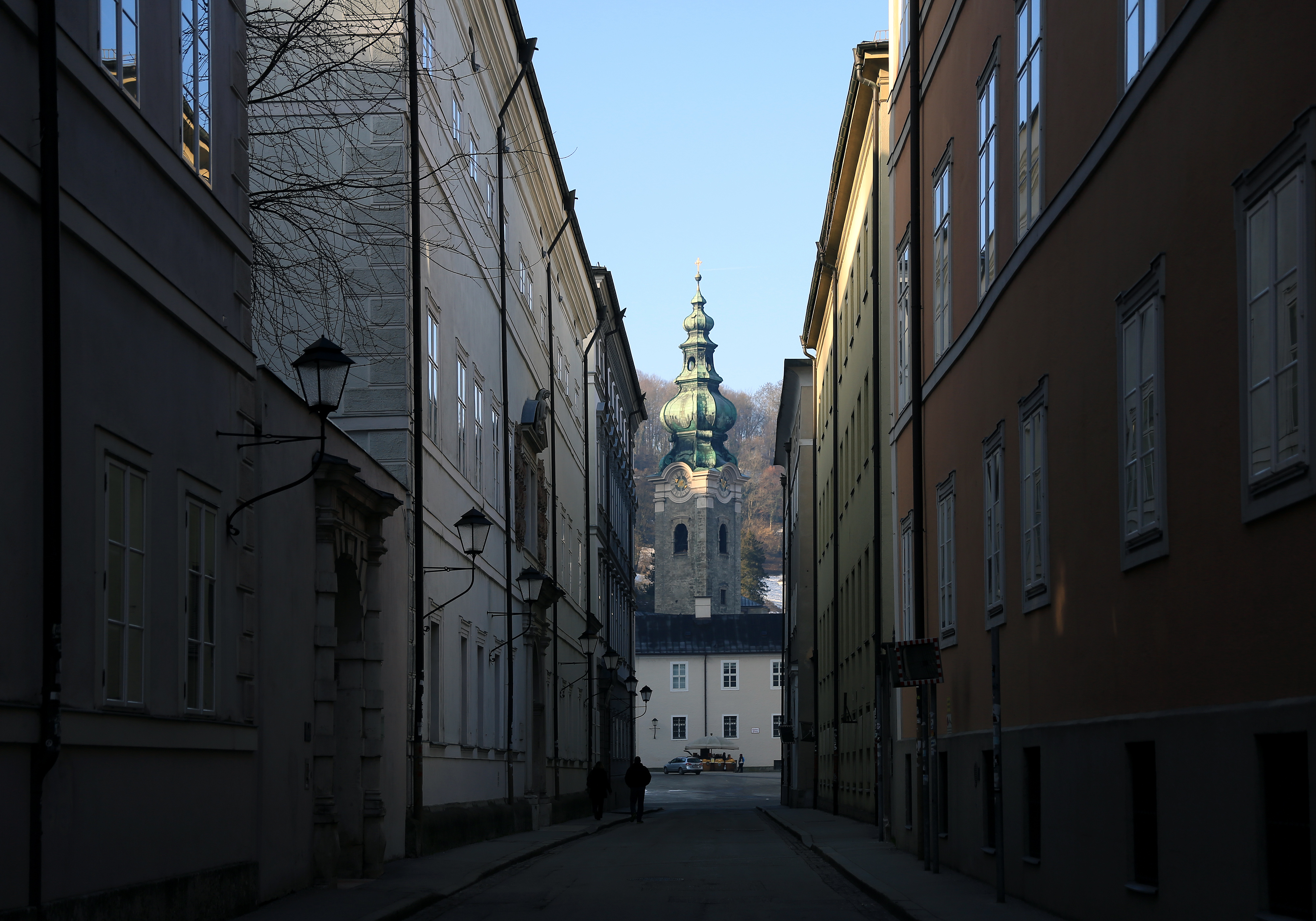 Kapitelgasse, view towards St Peter's Abbey in Salzburg, Austria.